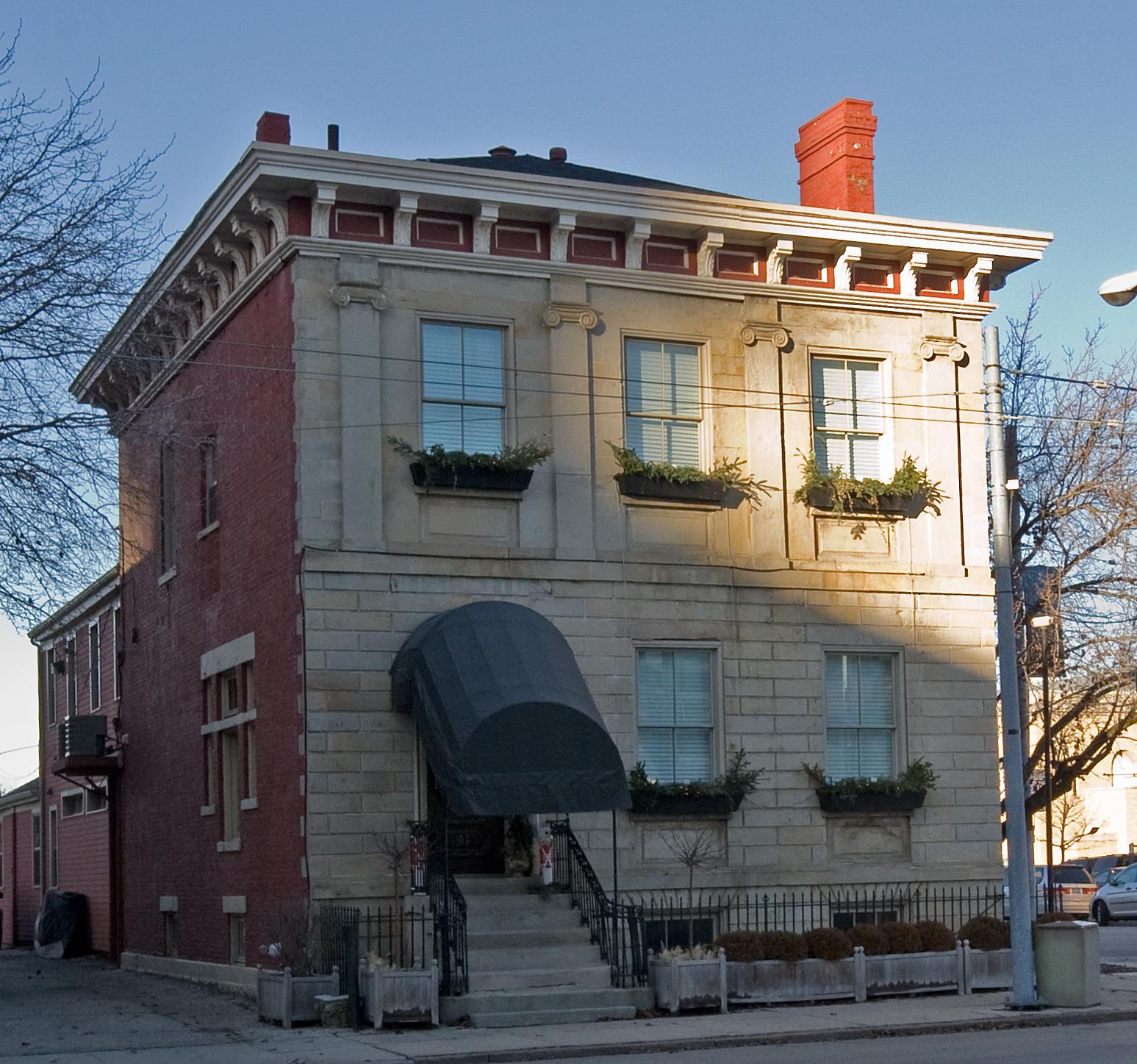 James Brooks house in Dayton, Oh. Photo by Greg Hume